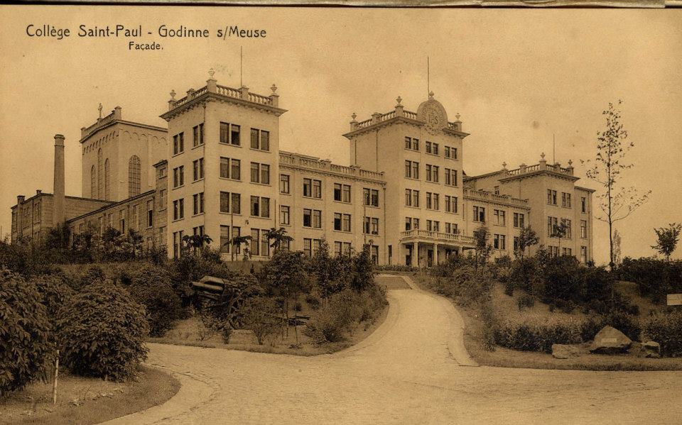 entrance college Saint-Paul Godinne